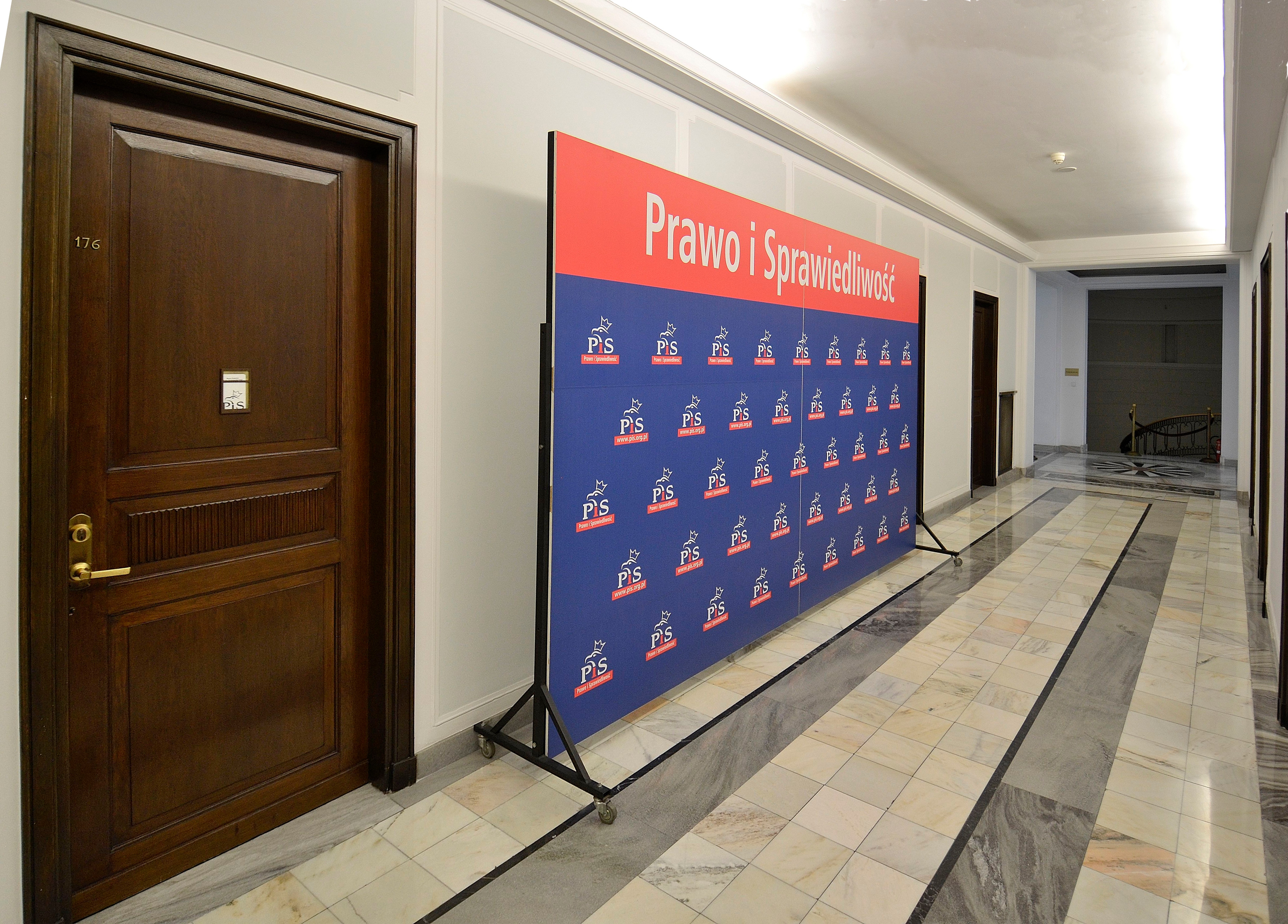 Seat of the Law and Justice parliamentary club in the Sejm